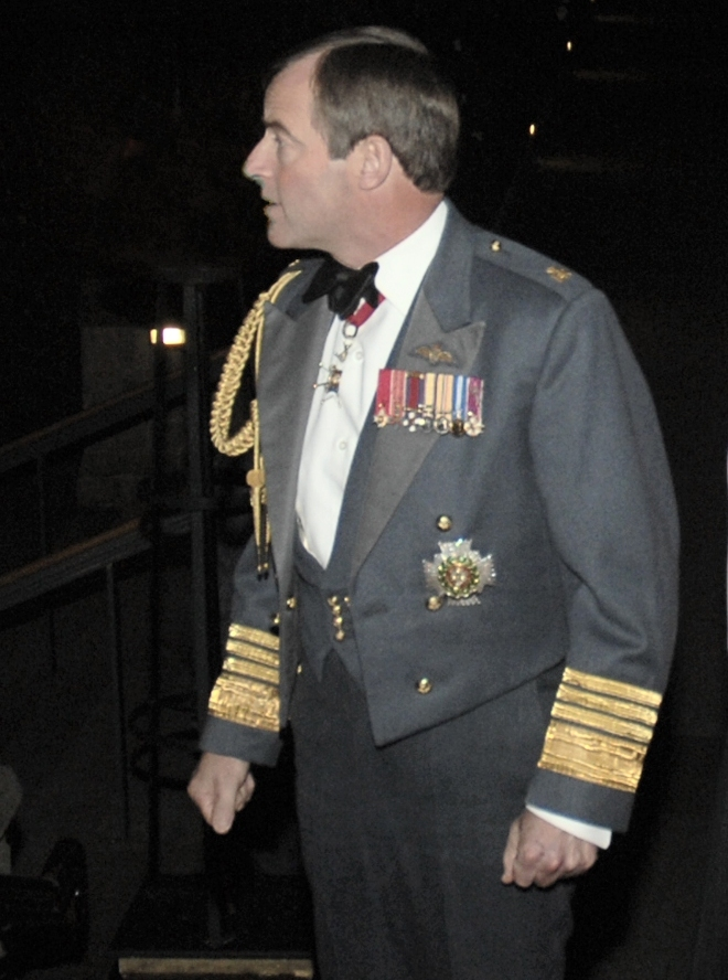 Royal Air Force Air Chief Marshal Sir Glenn Torpy, in RAF Mess Dress before the Air League's Annual Banquet in London.